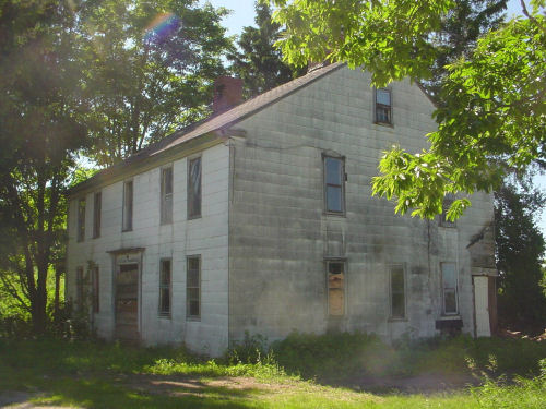 Home of Rev. David McGregor built in 1735 taken by William Gorman before it was destroyed in early 2006.